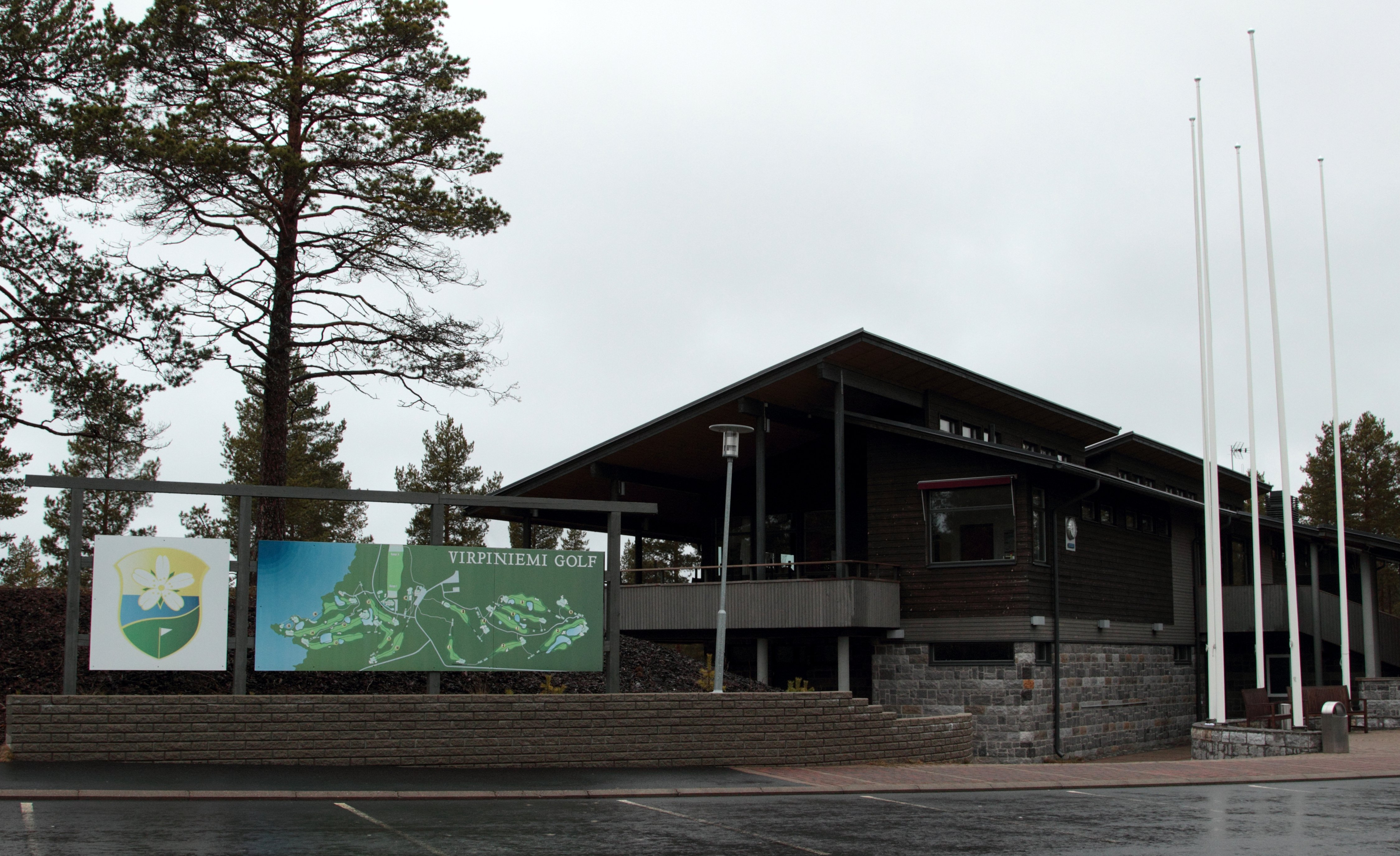 The club house of the Virpiniemi Golf centre in Oulu.